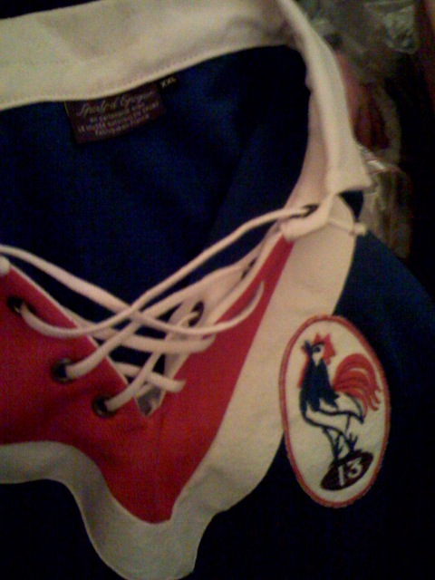 Team of France of rugby league to 1951